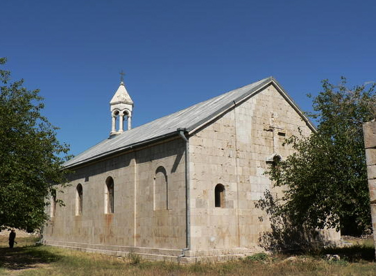 The Amaras Monastery in Nagorno Karabakh where in the 5th century Saint Mesrob Mashtots, the inventor of the Armenian Alphabet, established the first-ever Armenian school that used his script. The monastery was founded in the 4th century by St. Gregory the Illuminator, who baptized the Kingdom of Armenia into the world's first Christian state in 301 AD.